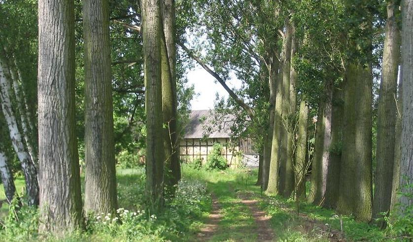 Preußnitz, farmhouse. The village Preußnitz is a part of the village Kuhlowitz, an incorporated part of the town Belzig in Brandenburg, Germany.